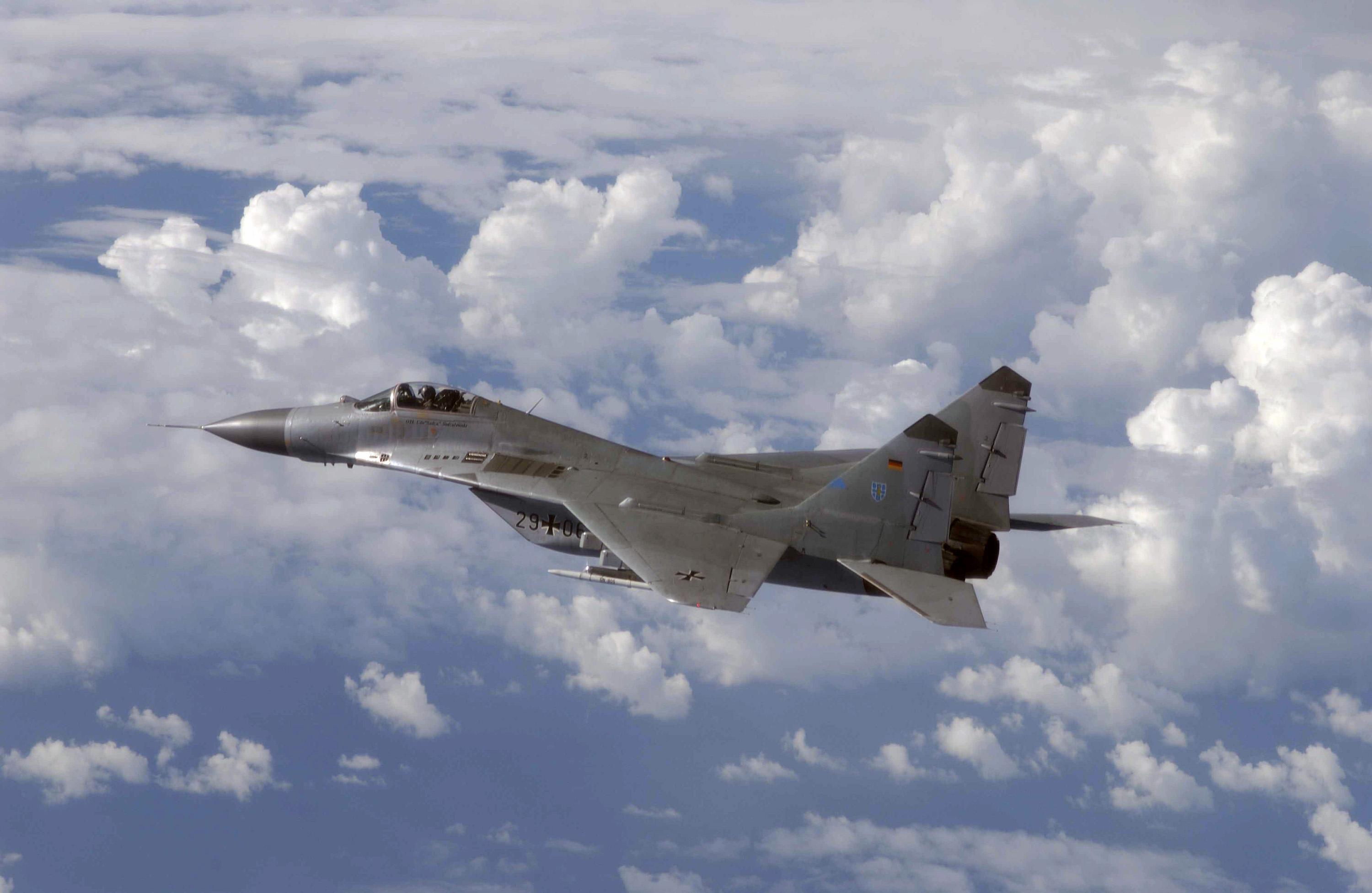 A Soviet-built MiG-29 Fulcrum fighter from Germany (DEU), flown by Colonel (COL) Pitt Hauser, Wing Commander of the 73rd Fighter Wing (FW), Laage Air Base (AB), Germany, flies over the Gulf of Mexico during a live-fire training exercise.